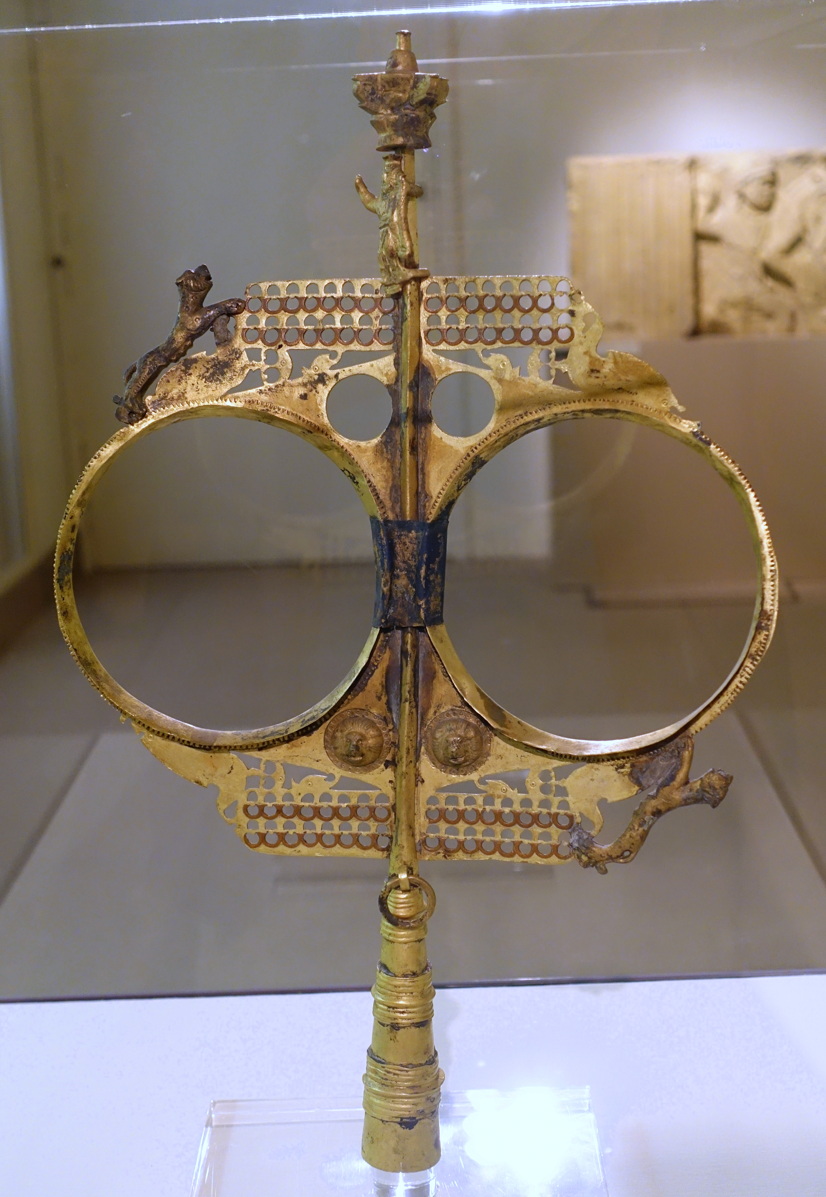 Exhibit in the Cinquantenaire Museum - Brussels, Belgium.